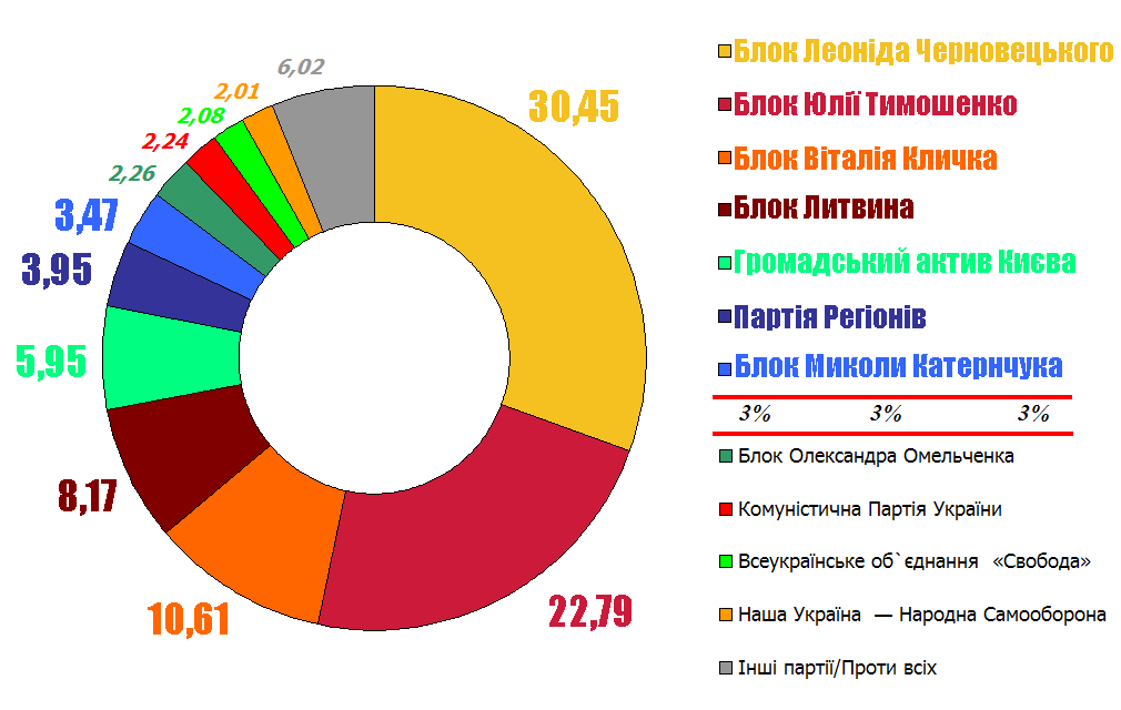 Results of the early elections to the Kiev City Council 2008.